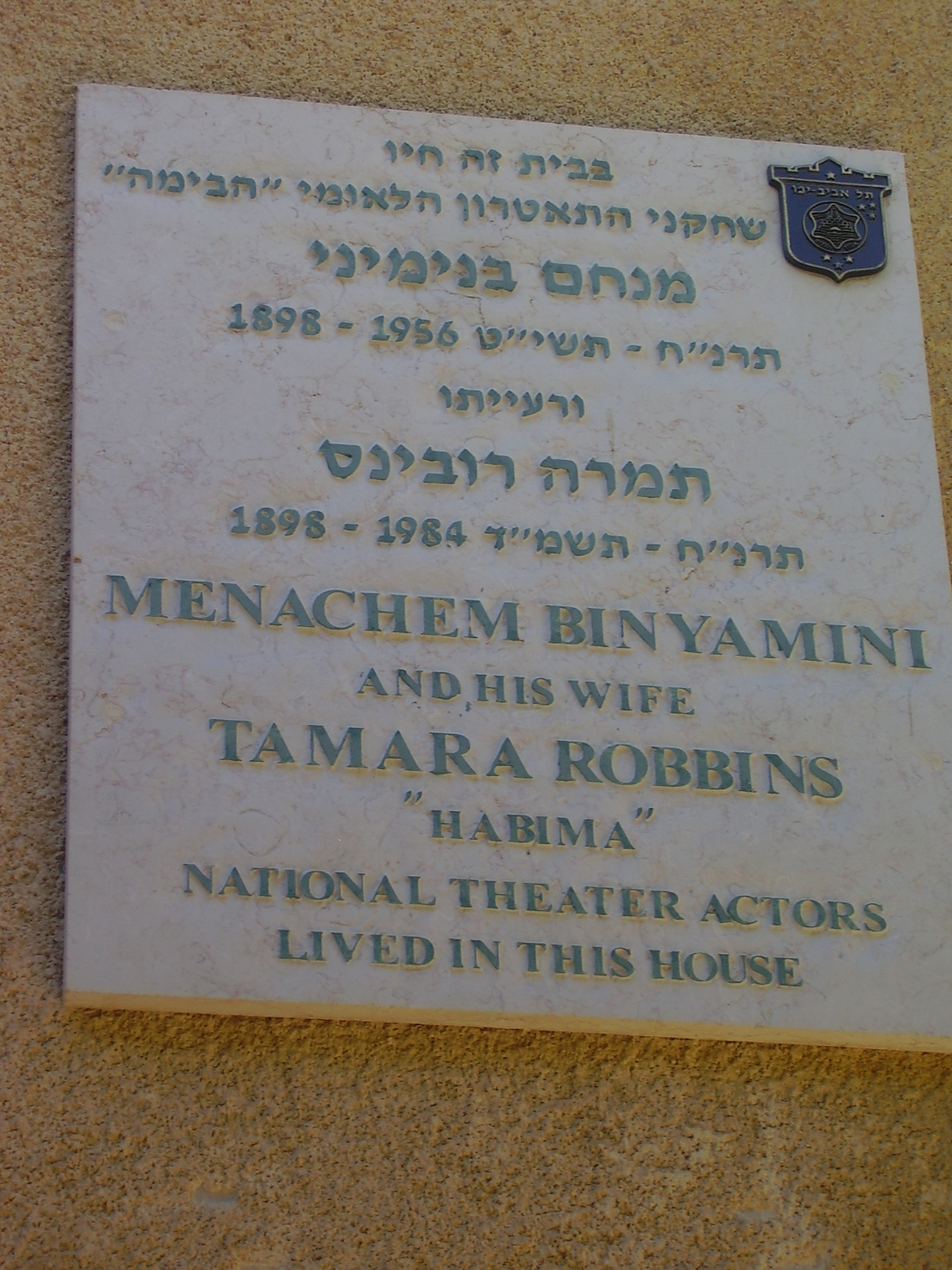 memorial plaque to the actors binyamini and robbins in tel aviv לוחית זיכרון על ביתם של השחקנים תמרה רובינס ומנחם בנימיני ברח' דב הוז 24 בתל אביב